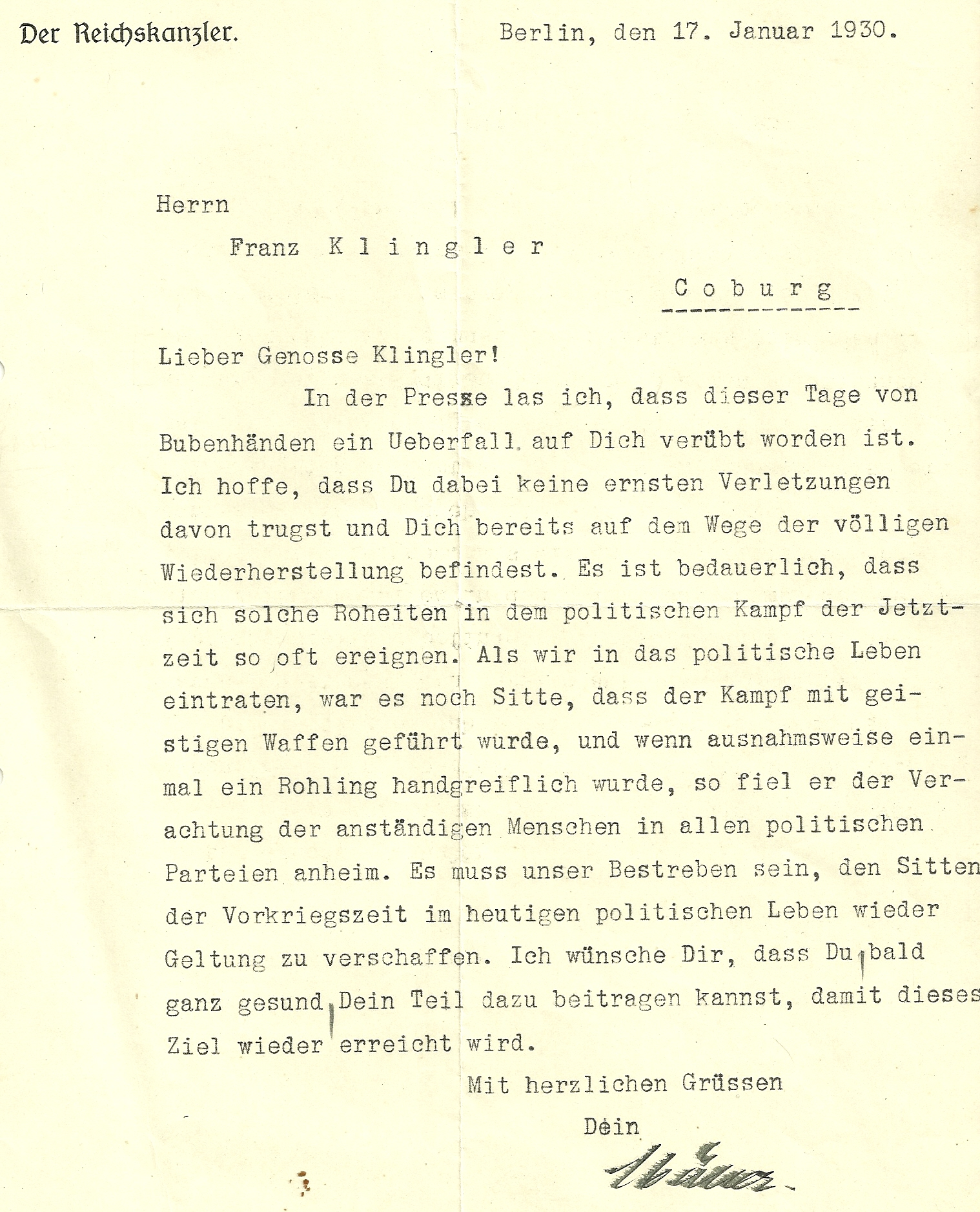 Letter Chancellor Hermann Müller January 1930 to Franz Klingler